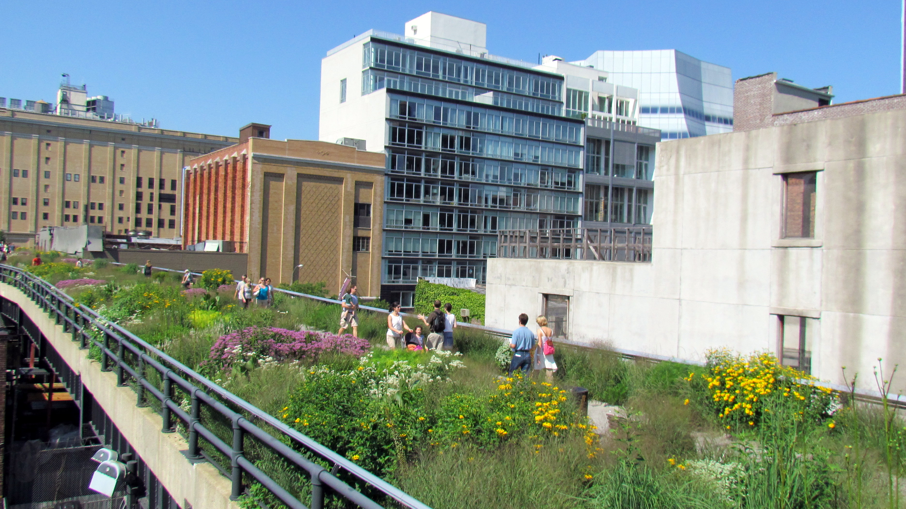 High Line Park in New York City July 2011 including the new second section (cc) David Berkowitz - /